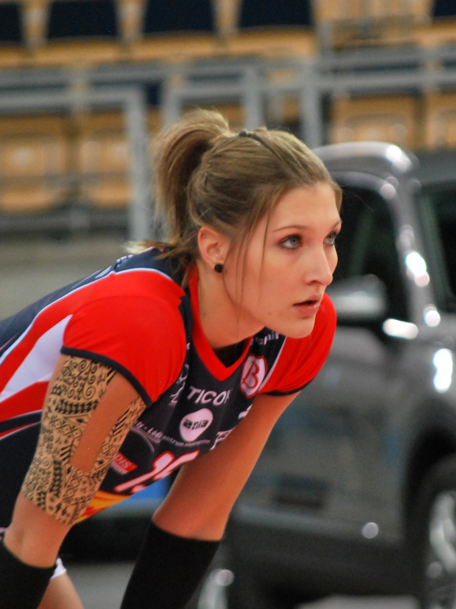 Kaja Grobelna, volleyball player from Belgium of polish ancestry